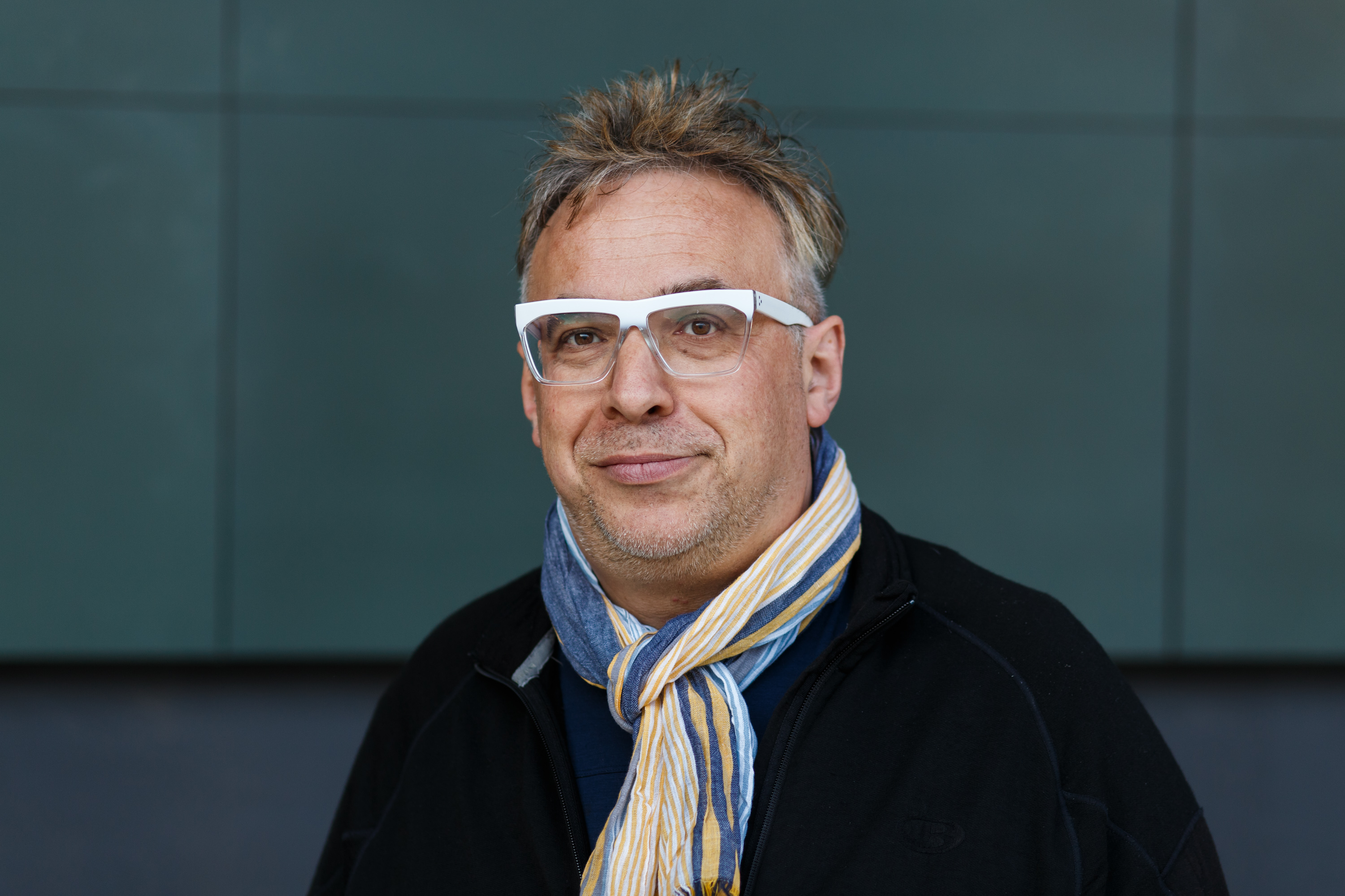 Lev Manovich's lecture on How to analyze culture using social networks at Strelka Institute